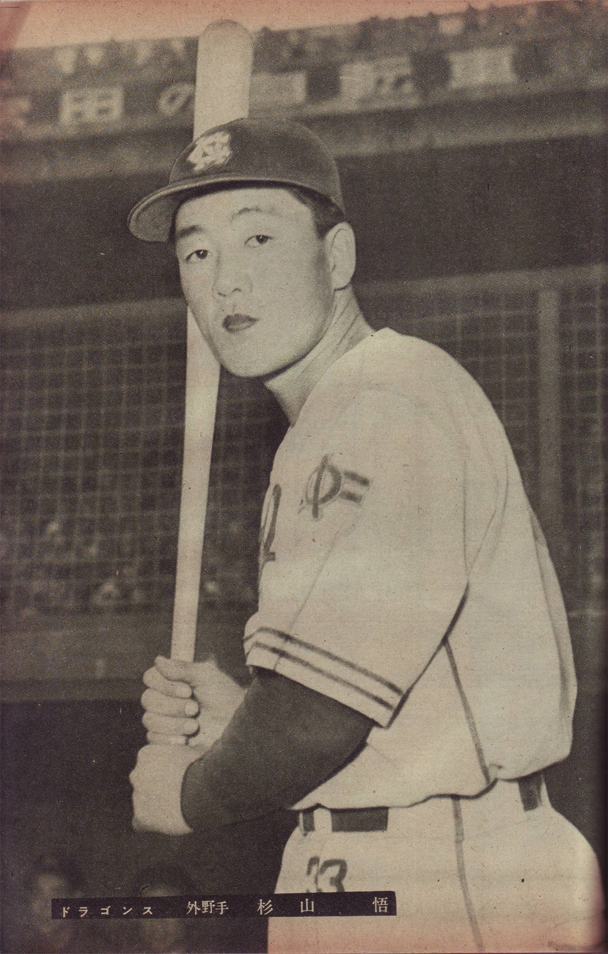 Satoshi Sugiyama (Chunichi Dragons). taken in 1950.